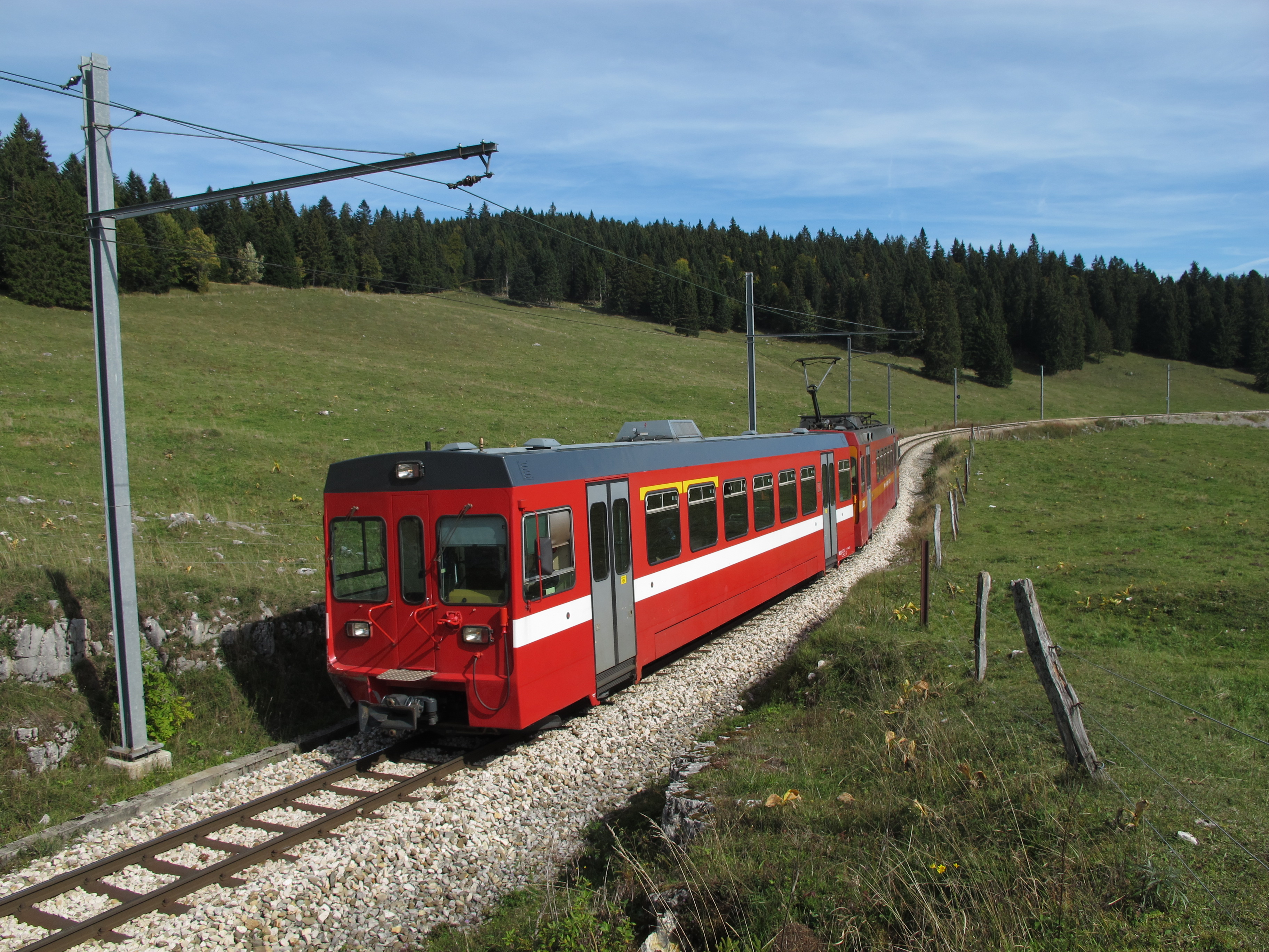 NStCM train between St Cergue and La Cure.